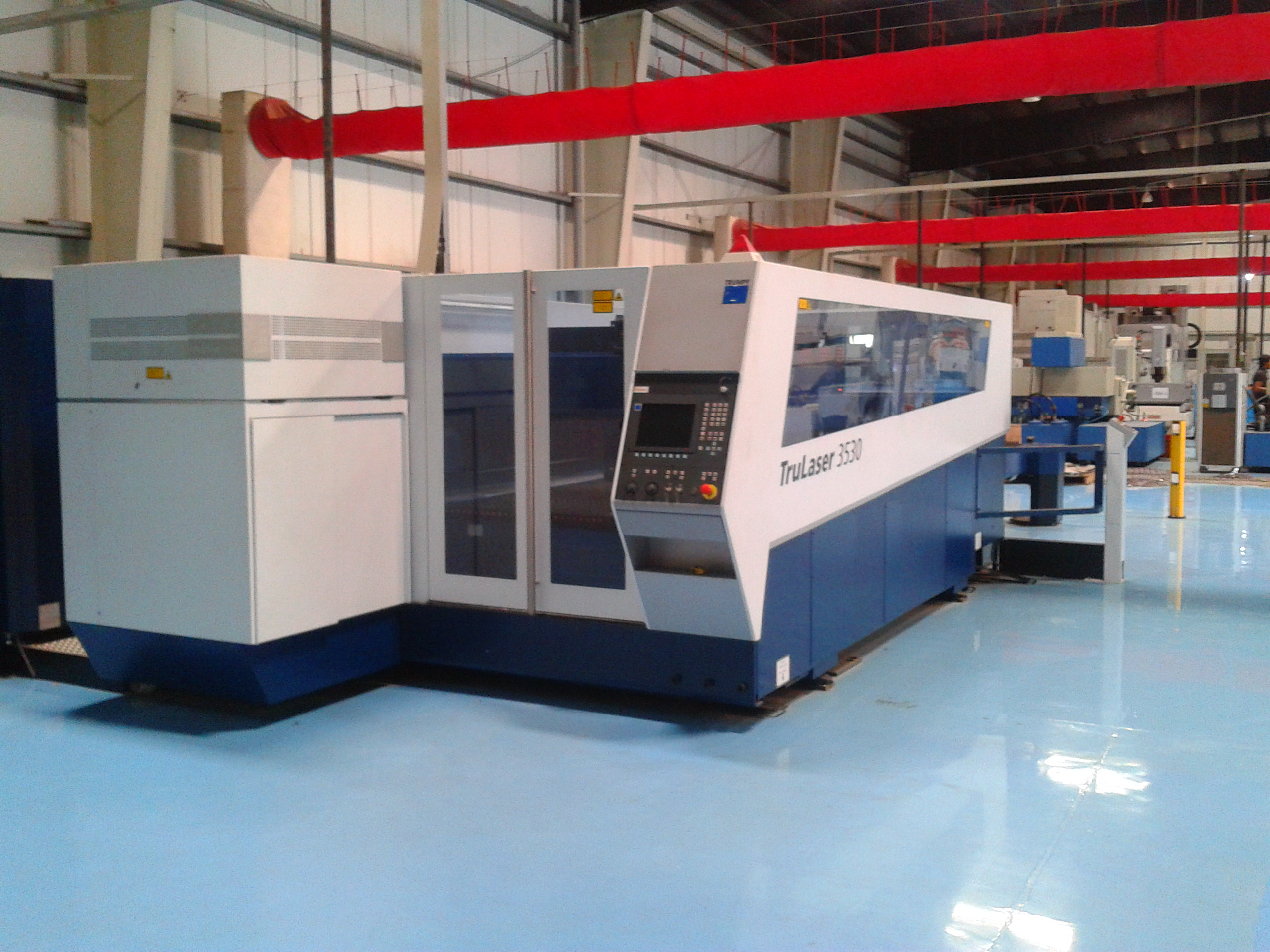 Trumpf TruLaser 3530 4000watt CO2 Laser Cutting Machine